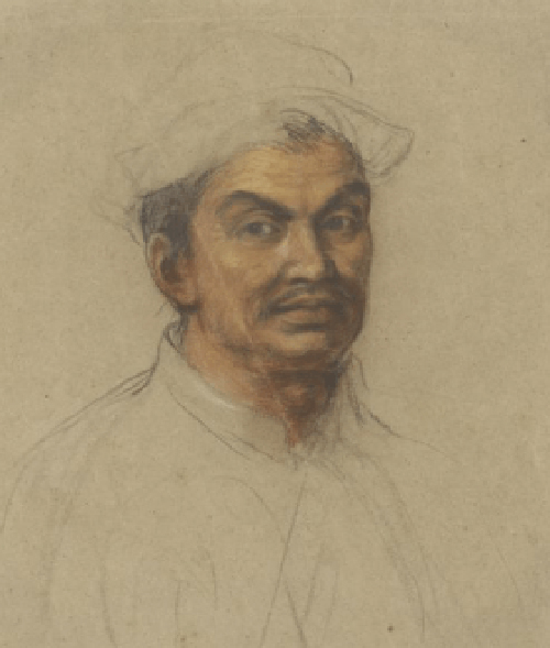 A portrait of Kosa Pan, a Thai ambassador accredited by King Narai of Ayutthaya to the court of King Louis XIV of France, by Charles Le Brun, 1686. The original description is as follows: "Kosan Pan by Charles Le Brun, 1686 "Charles Le Brun, who painted the portrait of the ambassador Kosan Pan, served as a guide for many of the ambassador’s visits to notable locations within the kingdom, such as the Manufacture des Gobelins and the Hall of Mirrors. The artist was impressed by the culture, finesse and curiosity of the ambassador."